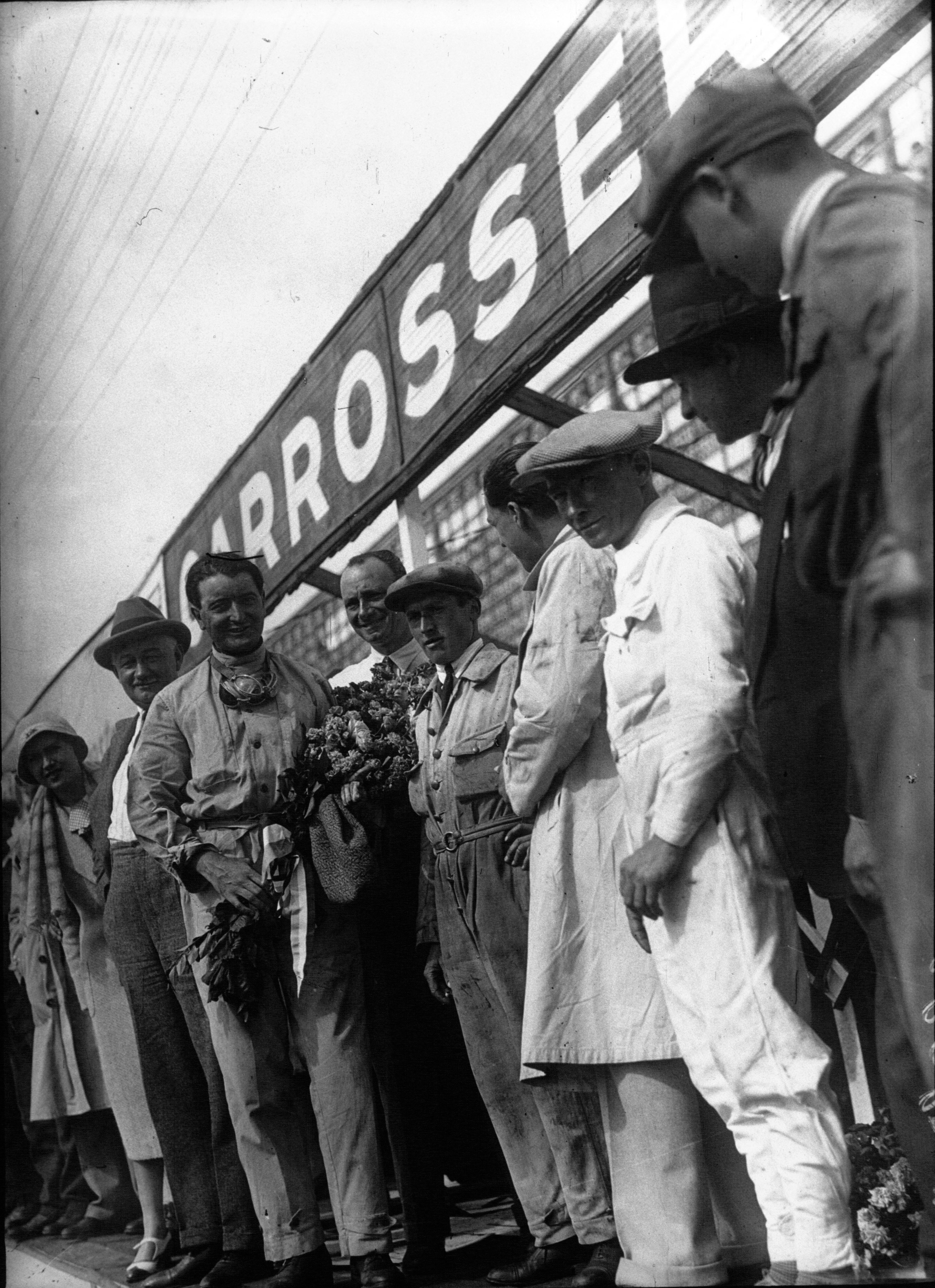 William Grover-Williams at the 1929 French Grand Prix